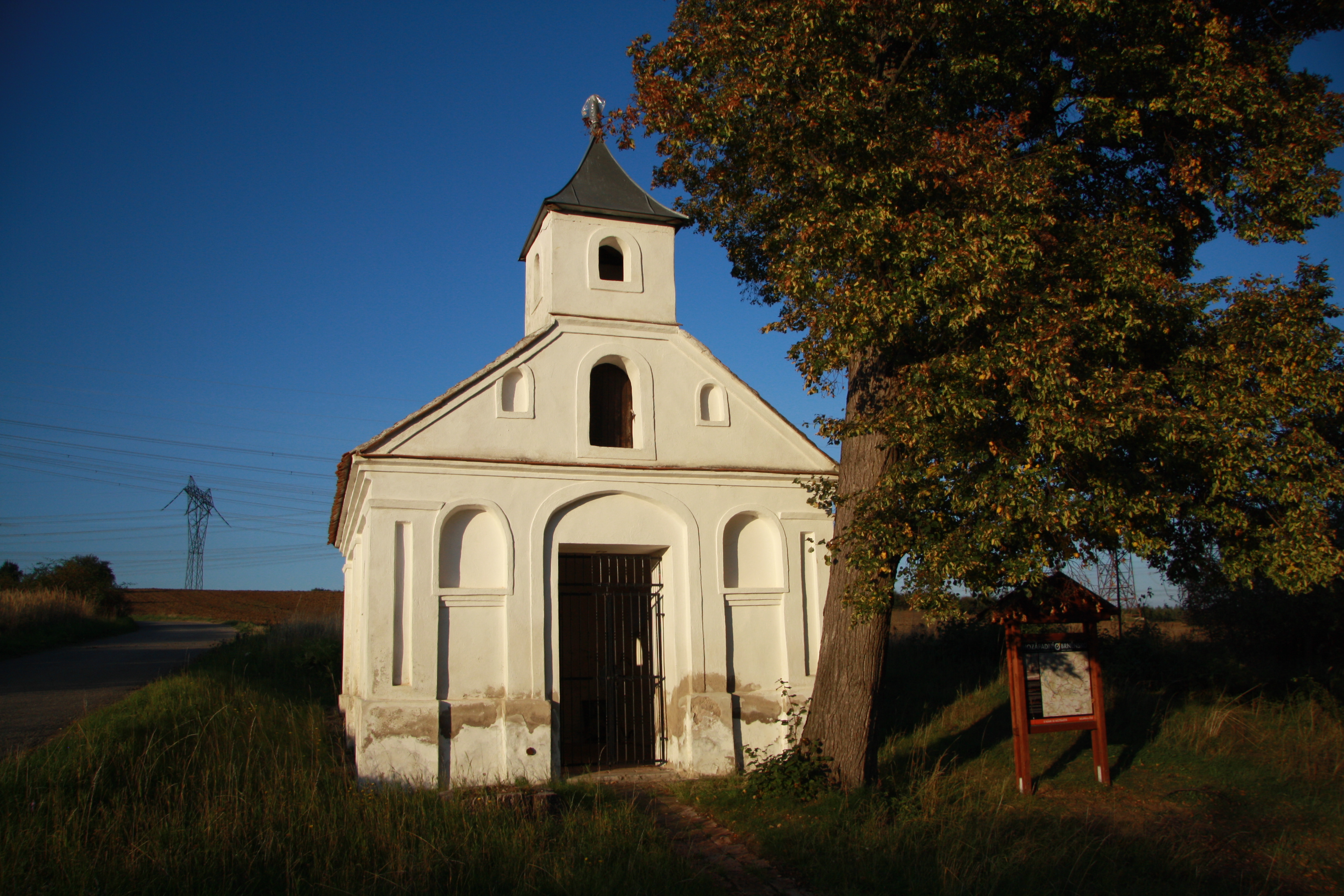 Chapel in Skryje, Třebíč District.